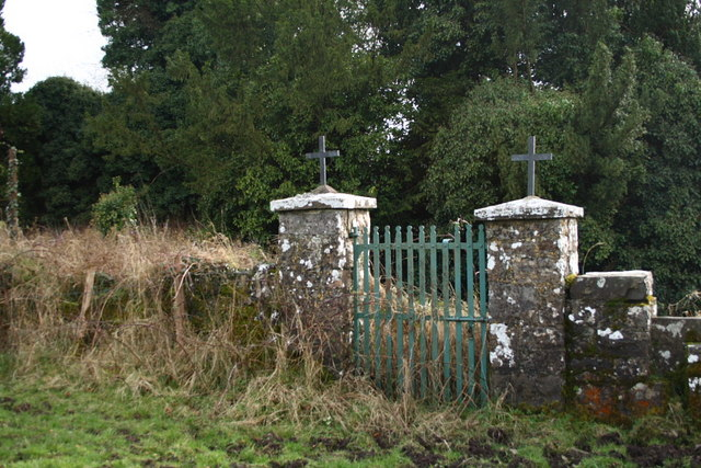 Churchyard Gate. Entrance gate to ancient churchyard at Rathconnell